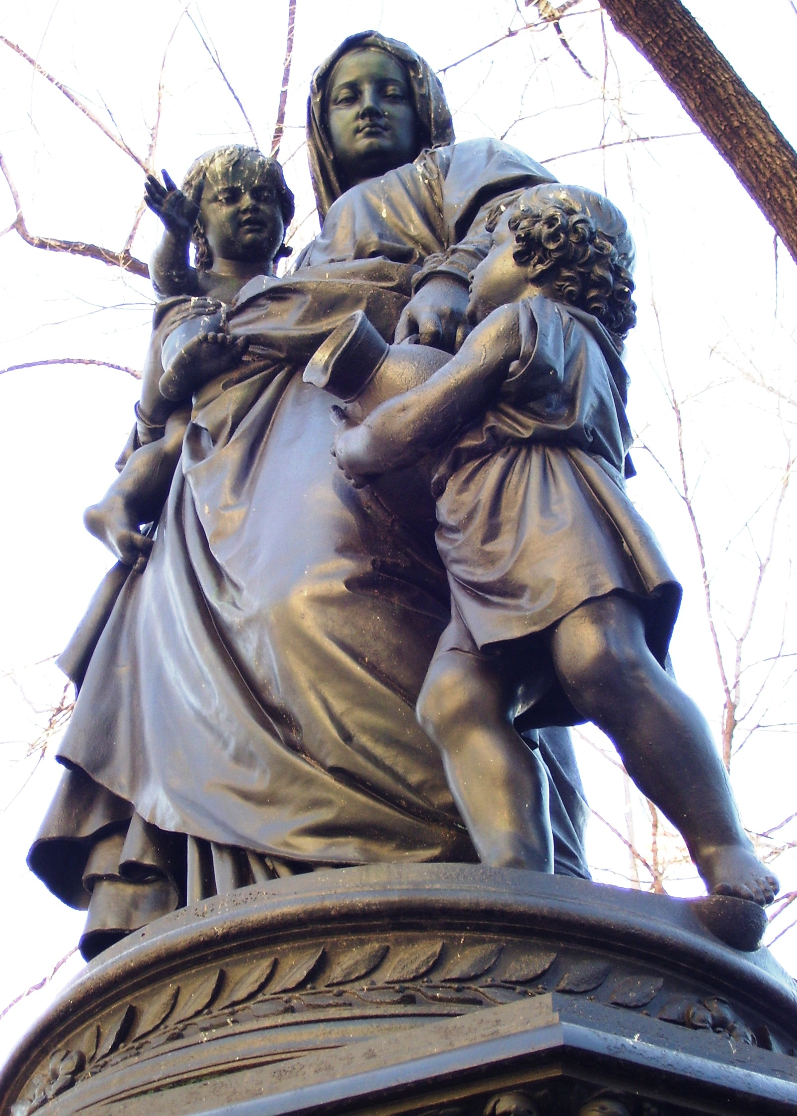 The Drinking Fountain in Union Square Park, Manhattan, New York City, was designed by architect J. Leonard Corning and sculpted in bronze by Karl Adolph Dondorff. The base is polished Swedish red granite. It was cast in 1881 by G. Howaldt, Braunschweig and dedicated on October 25th of that year. The fountain was donated by Daniel Willis James and Theodore Roosevelt, Sr. (Source: "Union Square Drinking Fountain" on the NYC Parks Department website)